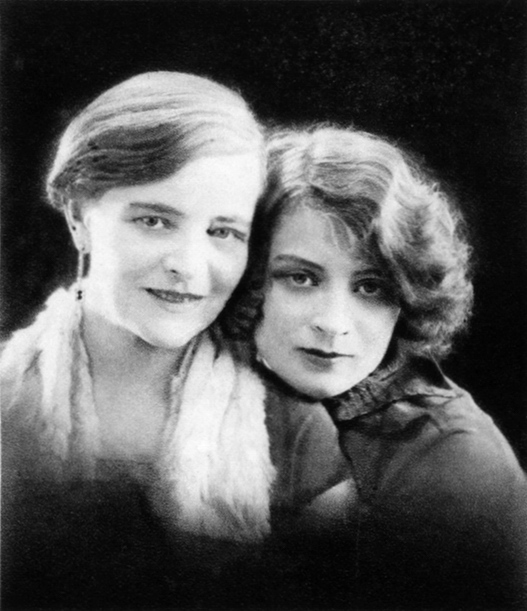 The actress Eva Vrchlická (1888-1969, left) with her daughter, ballet-dancer Eva Vrchlická Jr (1911-1996, right).